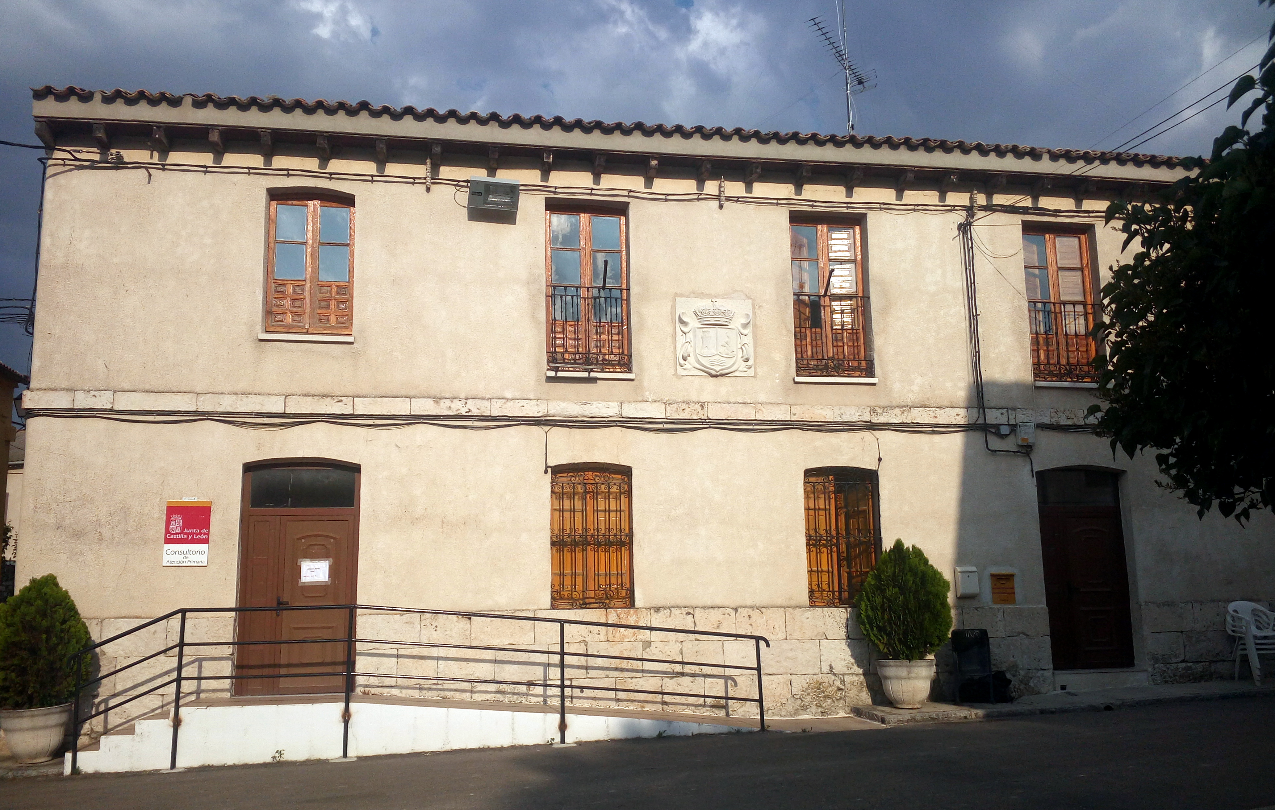 Town hall in Torre de Peñafiel, Valladolid, Spain.